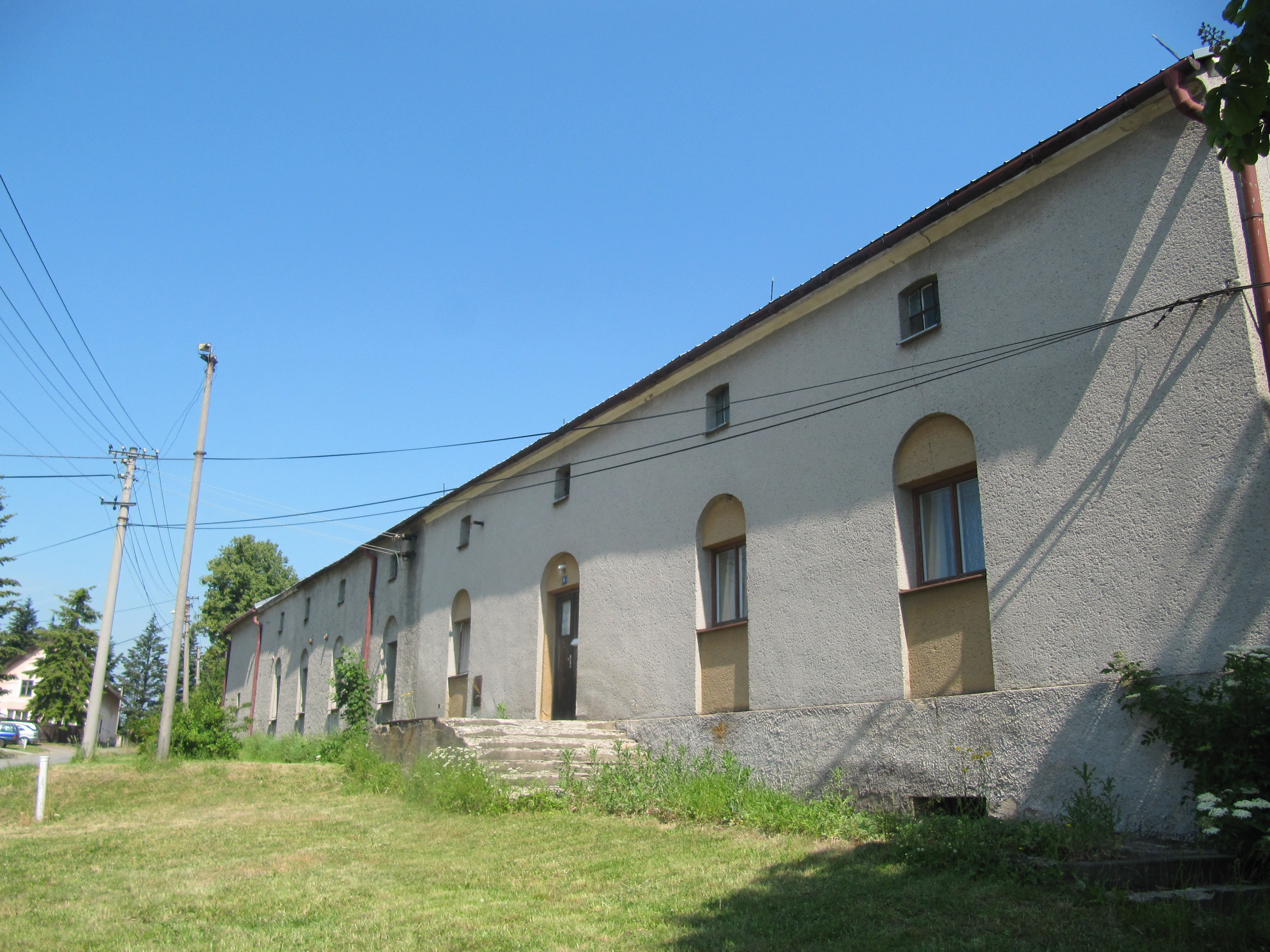 Březová, Opava District, Czech Republic, part Jančí.